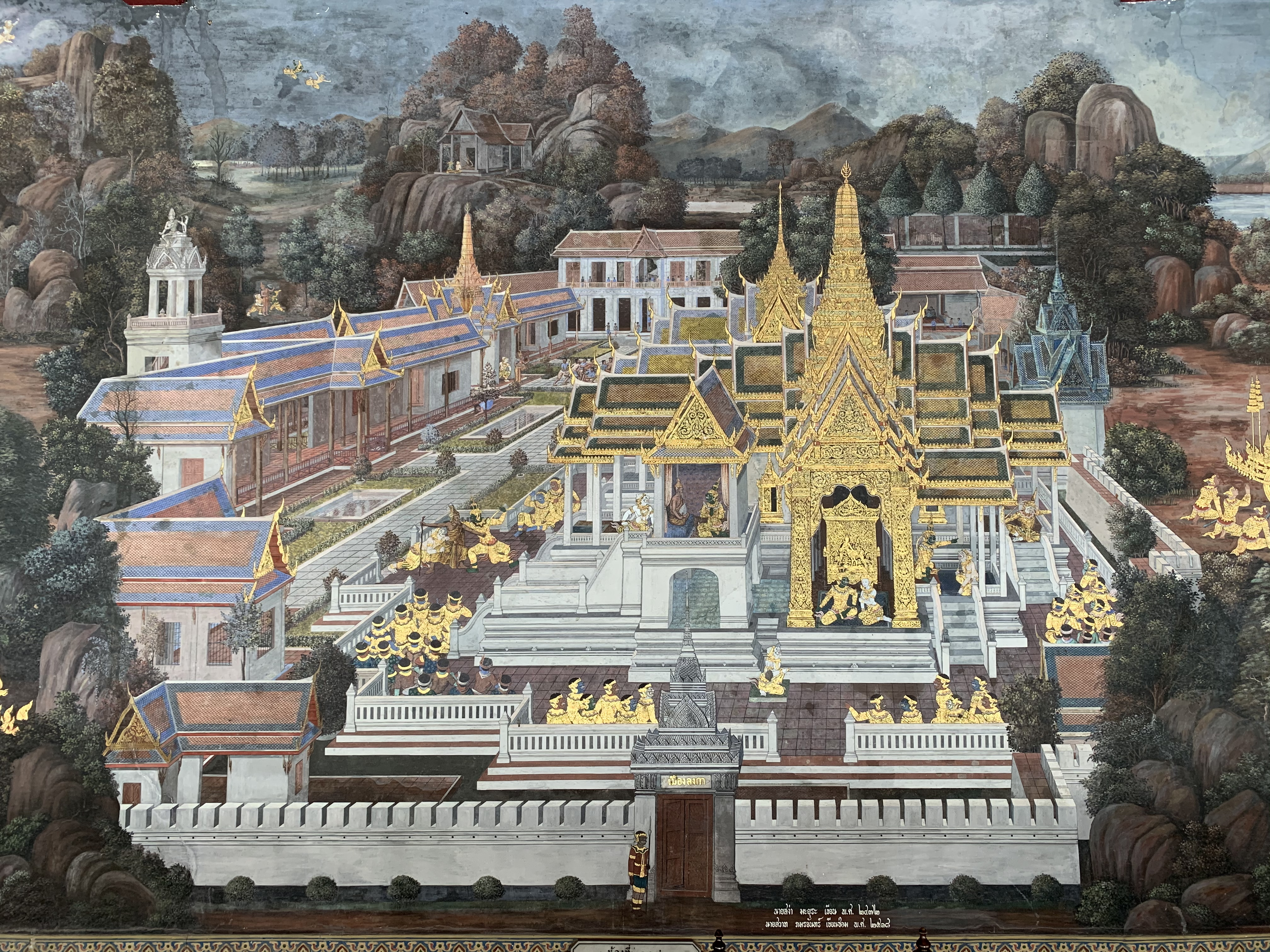 Thai murals in Wat Phra Kaew, this part was drawn by Sa-nga Mayura, fixed by Sawat Phamonchan (names were written at the bottom in Thai)